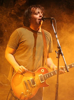 Gene Ween on tour in Edmonton, Alberta, Canada on January 17th, 2007.